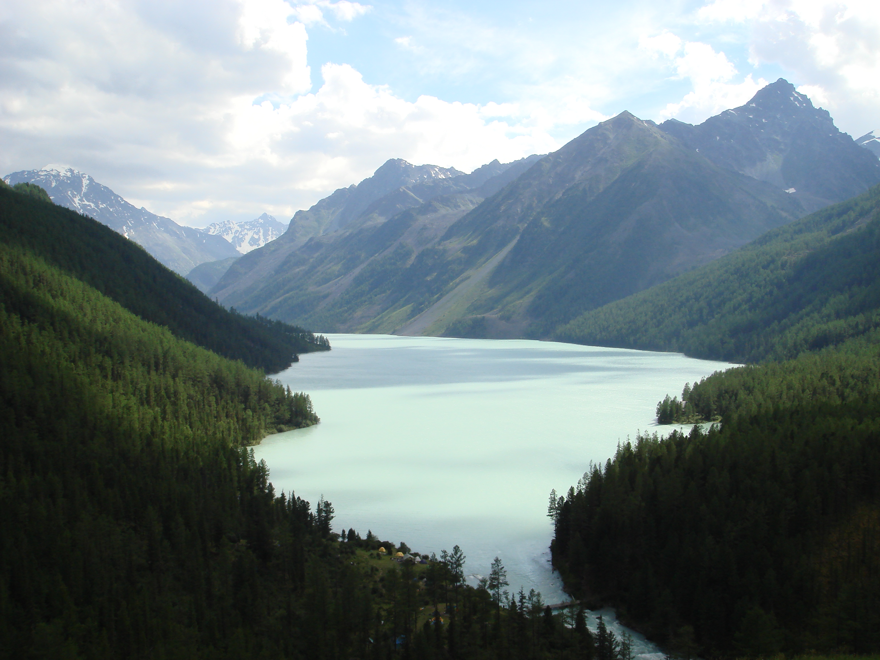 Lake Kucherlinskoye in the Altay Mountains (Altay Republic, Russia).